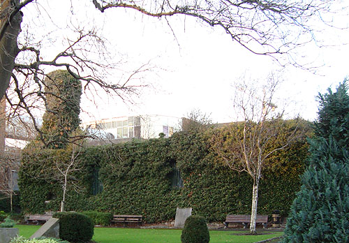 Photograph of St. Kevins church in St. Kevin's Park, Dublin Ireland. Taken by me on December 12 2008.